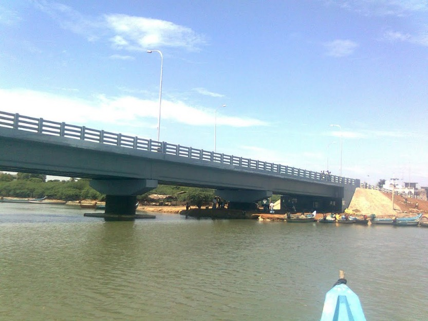 The Ponneri Bridge that gives way to Ponneri to Pulicat ..and also the river is passing under the bridge .the river name is arani ..starting from the city named as ARANI